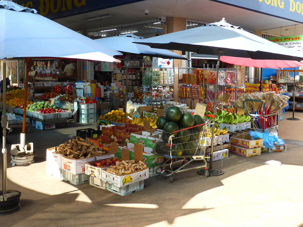 Vietnamese fresh produce stall at the markets in Inala Civic